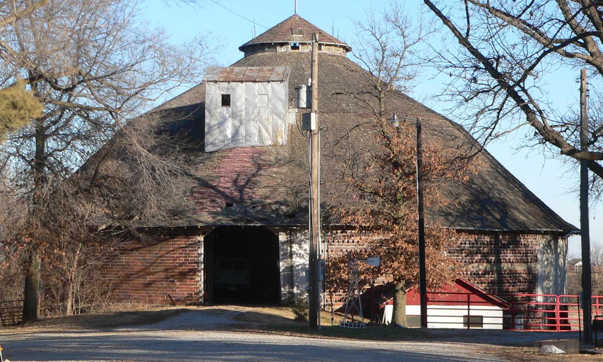 Ehlers round barn, located at 12200 S. 110th Street in rural Lancaster County, Nebraska; seen from the west.